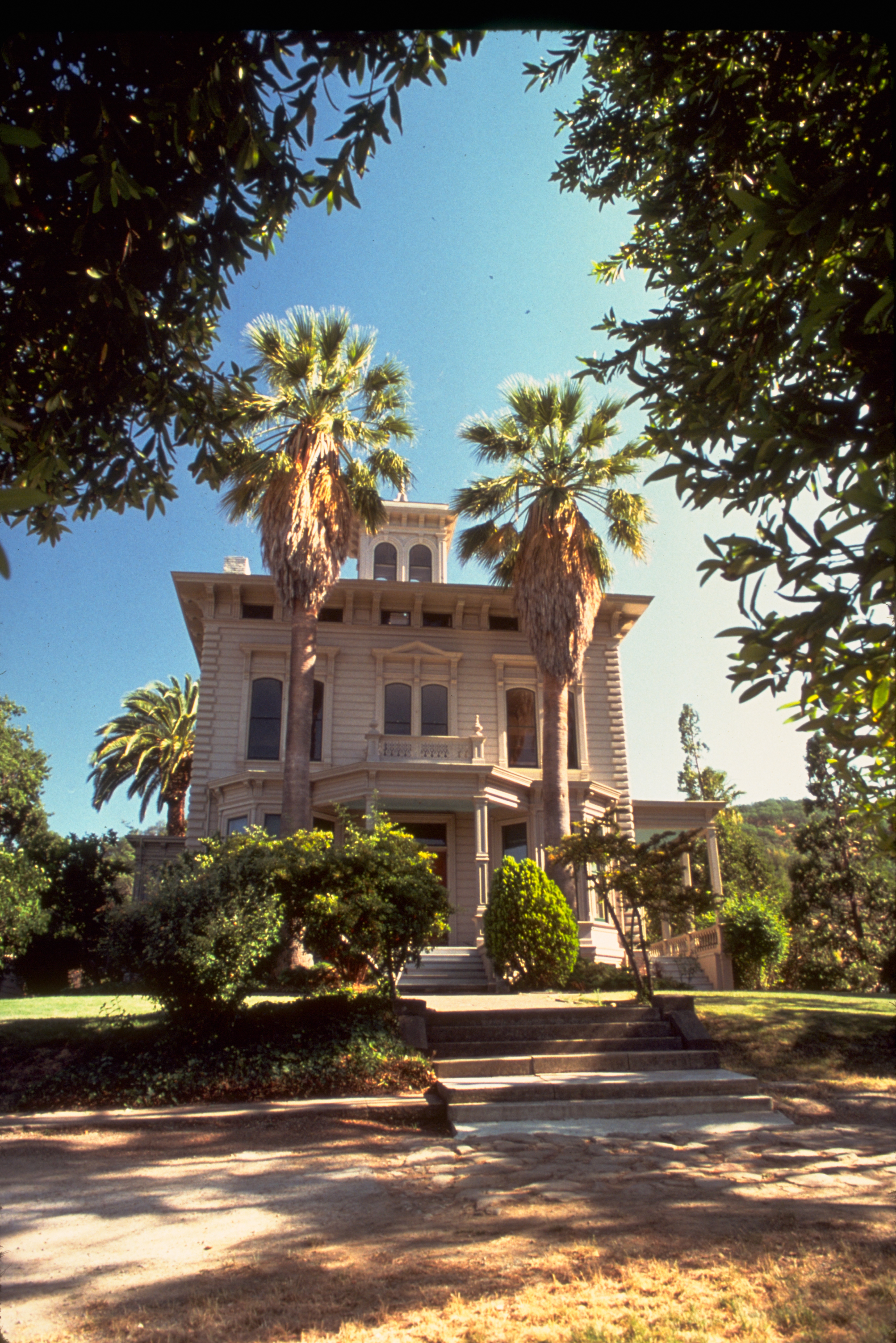 John Muir's house. John Muir married Louisa (Louie) Strentzel in 1880. Her family owned and operated a large 2600-acre ranch here in the Alhambra Valley of Martinez, California. John Muir went into partnership with his father-in-law, Dr. John Strentzel, and for ten years directed most of his energy into managing this large fruit ranch, which is now the John Muir National Historic Site.